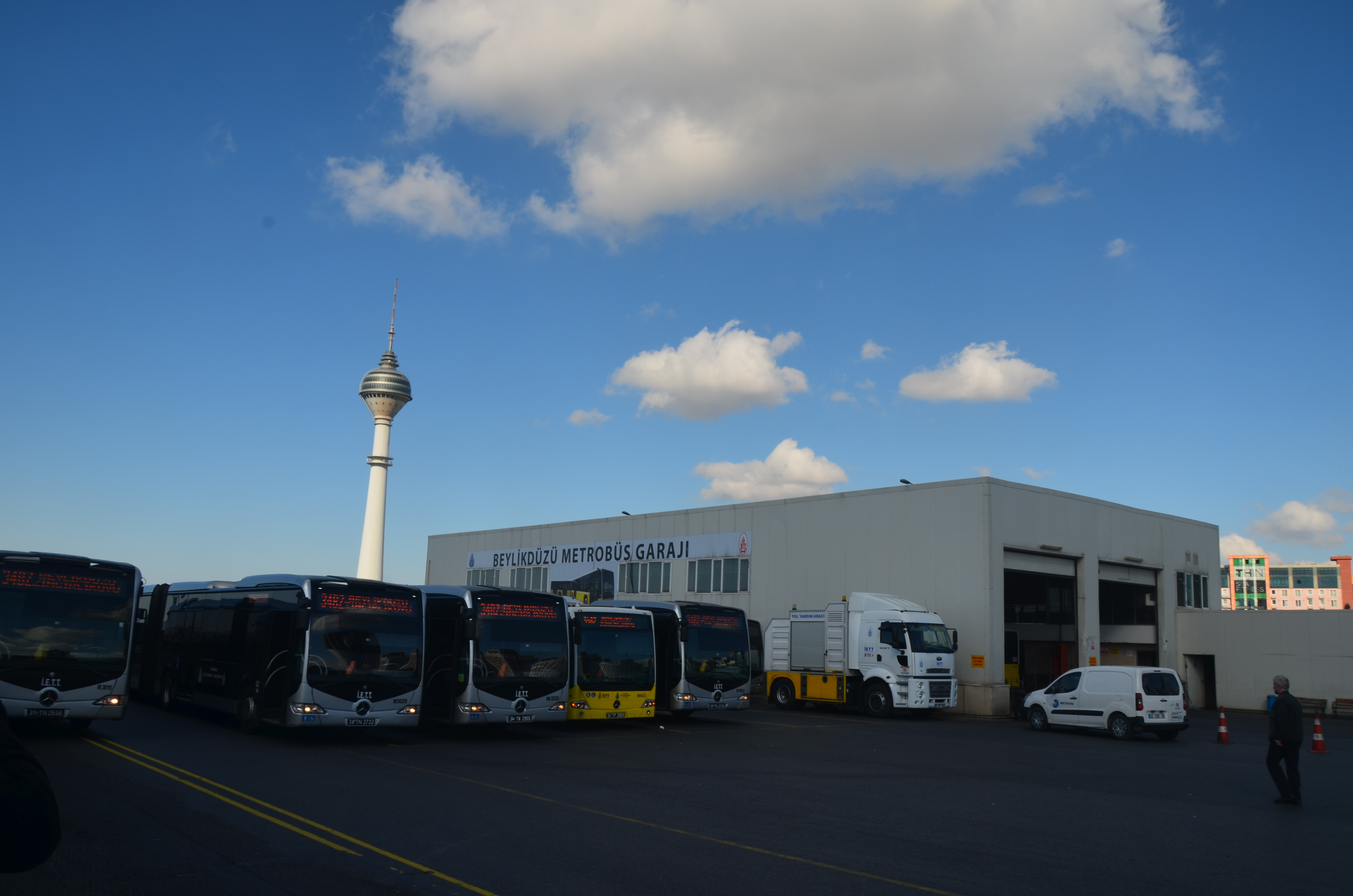 Metrobus Garage in Beylikdüzü, Istanbul